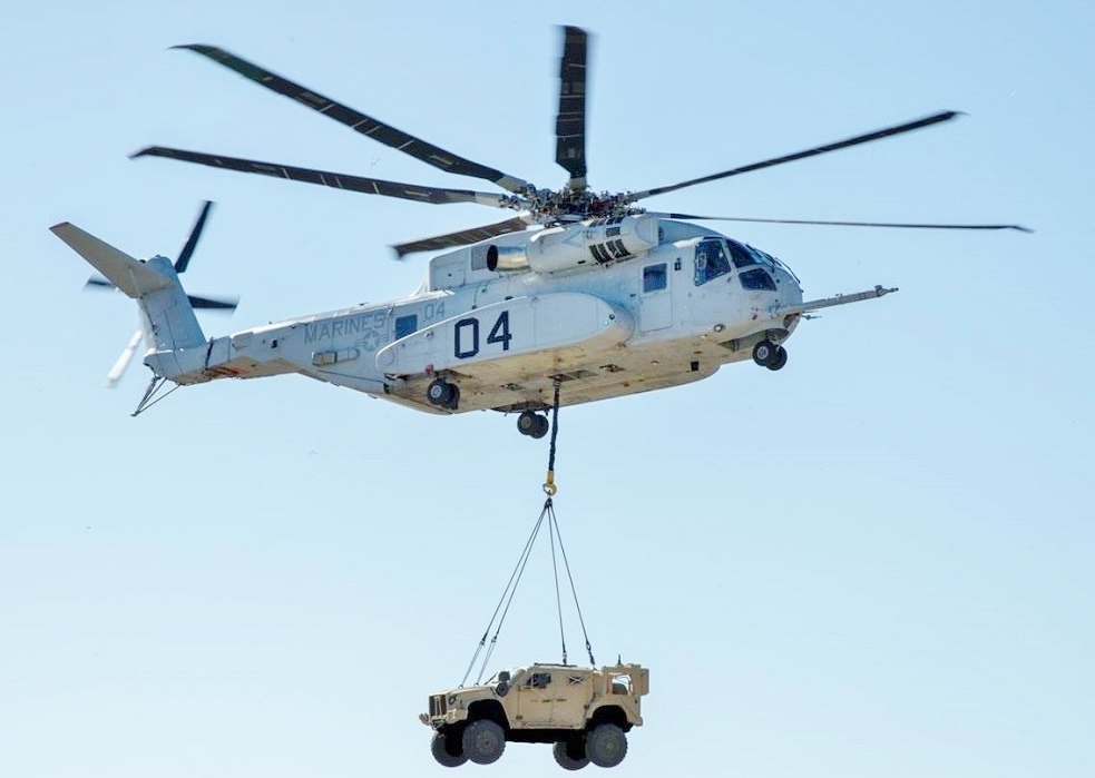 A CH-53K King Stallion lifts a Joint Light Tactical Vehicle during a demonstration, Jan. 18. (Navy)